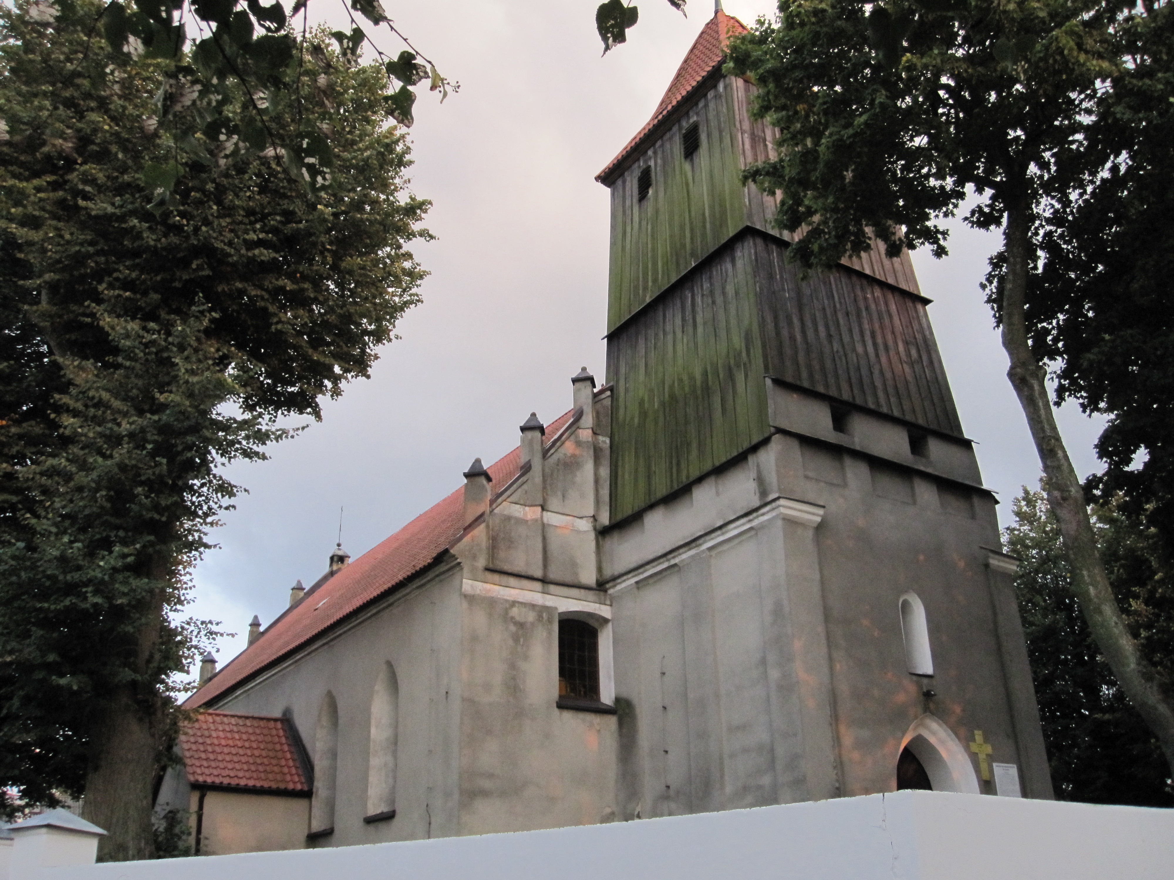 Saint Joseph church in Nawiady, Poland